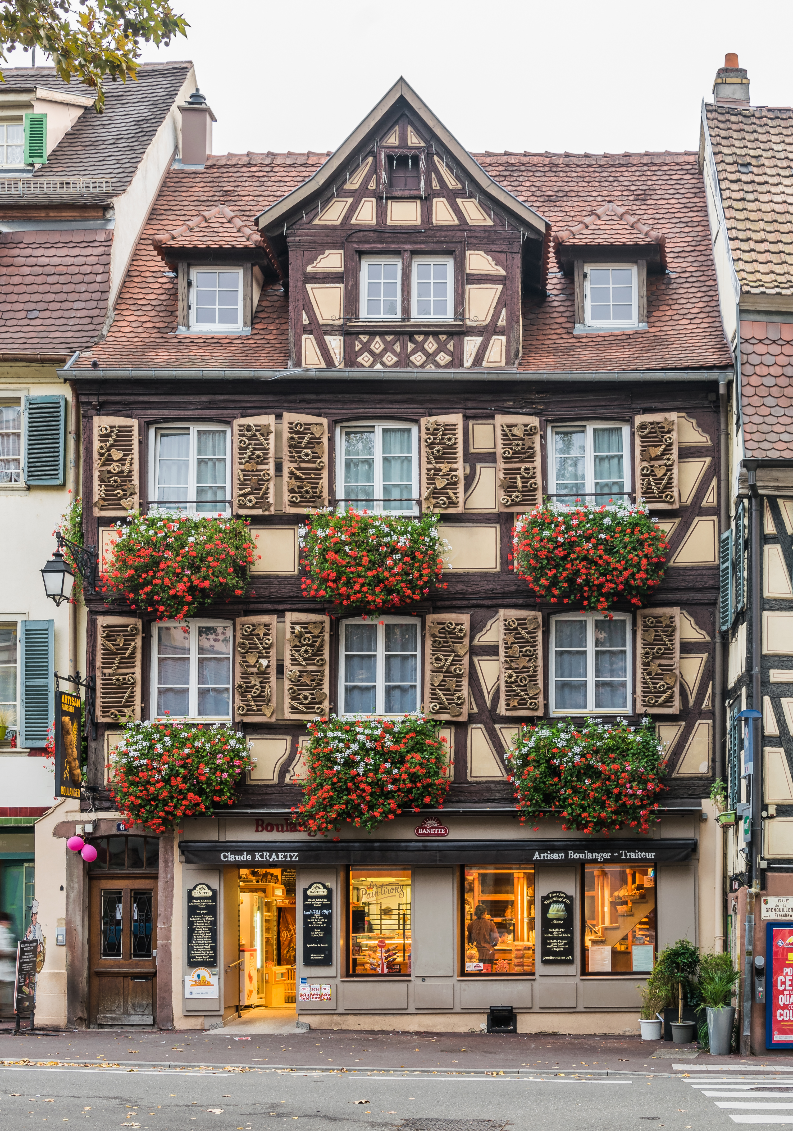 Building at 6 Place Jeanne d'Arc in Colmar, Haut-Rhin, France